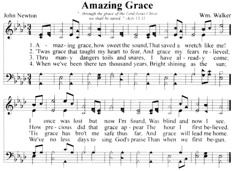 Another scan showing a hymn (Amazing Grace) written using the 7-note shape-note system, in the traditional congregational hymnal format. These shape-note hymnals once completely dominated churches in the South, and are still in use in many churches. Scanned for the Shape note and Independent Fundamental Baptist articles. This scan depicts a newer and cleaner font that the other, older one.